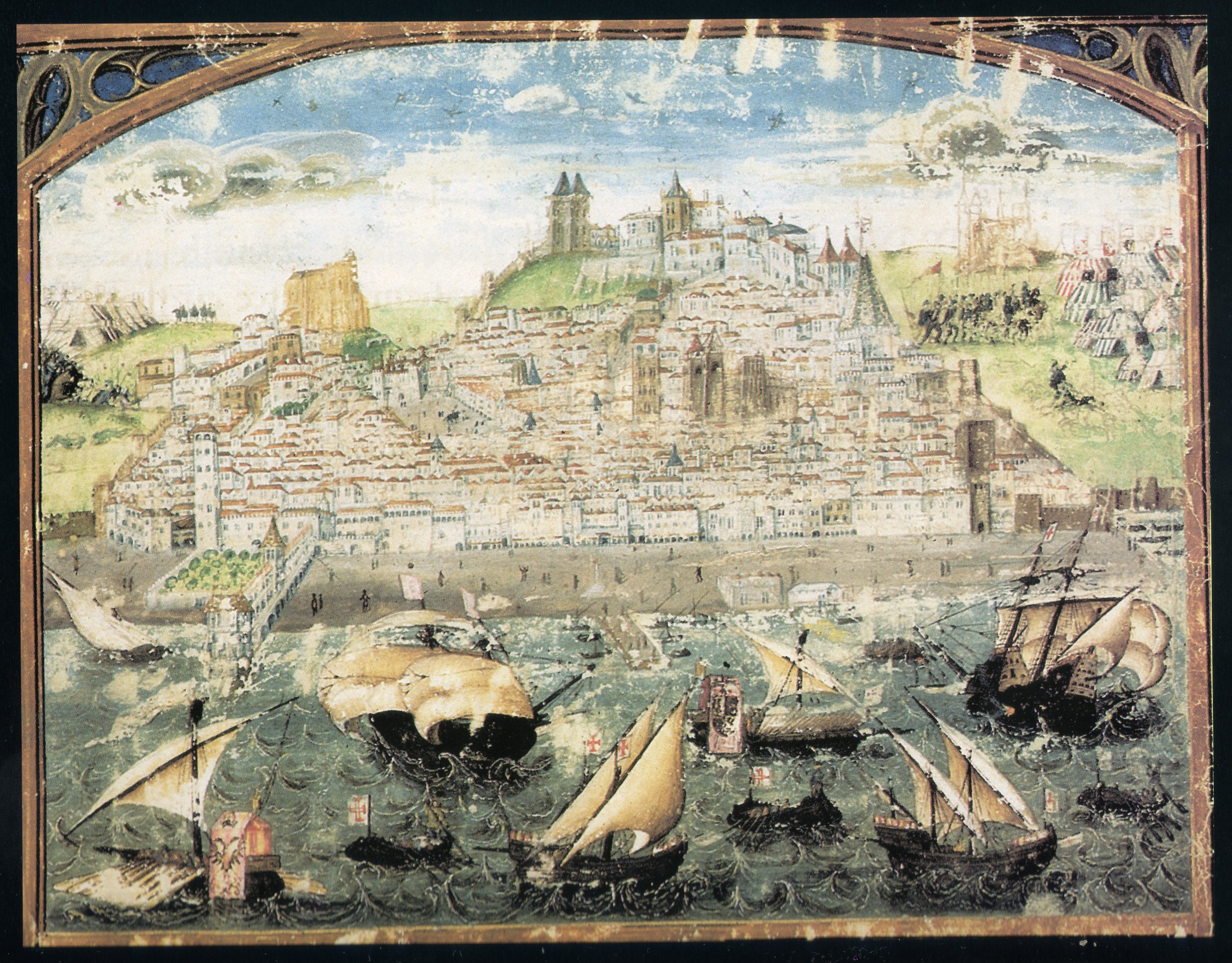 The oldest known view of Lisbon (circa 1500-1510). This miniature is from the Cronicle of Afonso I of Portugal